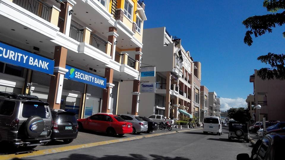 Landco Business Park is the first master-planned business district in Legazpi, Albay, Philippines